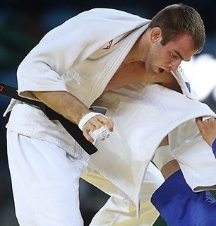 2016 Summer Olympics Judo, August 9